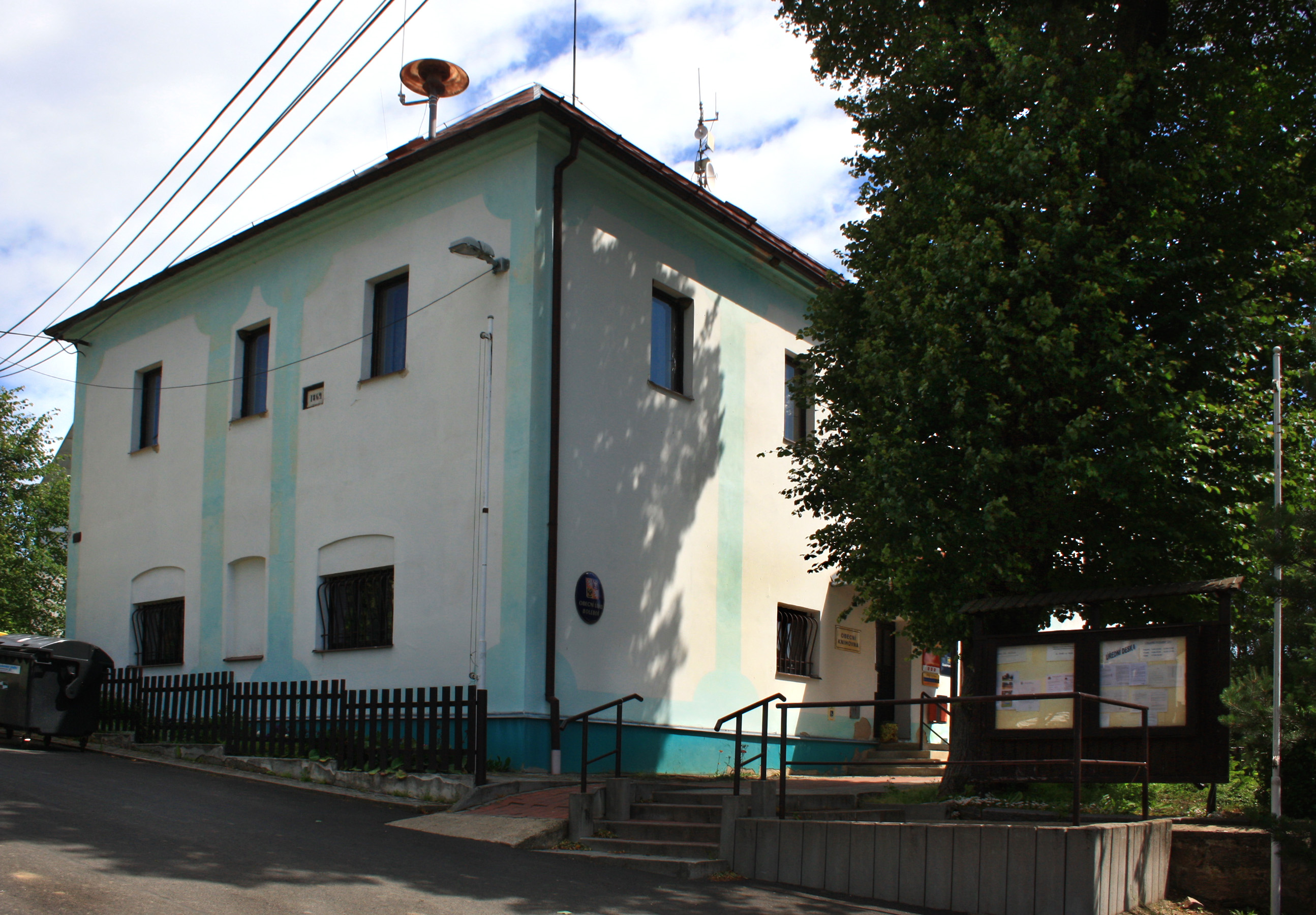 Municipal and post office at Boleboř village, Czech Republic